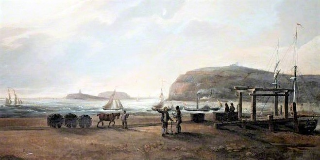 The first coal staiths on River Taff, Cardiff, from Penarth Head painting, Alexander Wilson (1796-1874), dated 1833. and Photo credit: Cardiff Council.